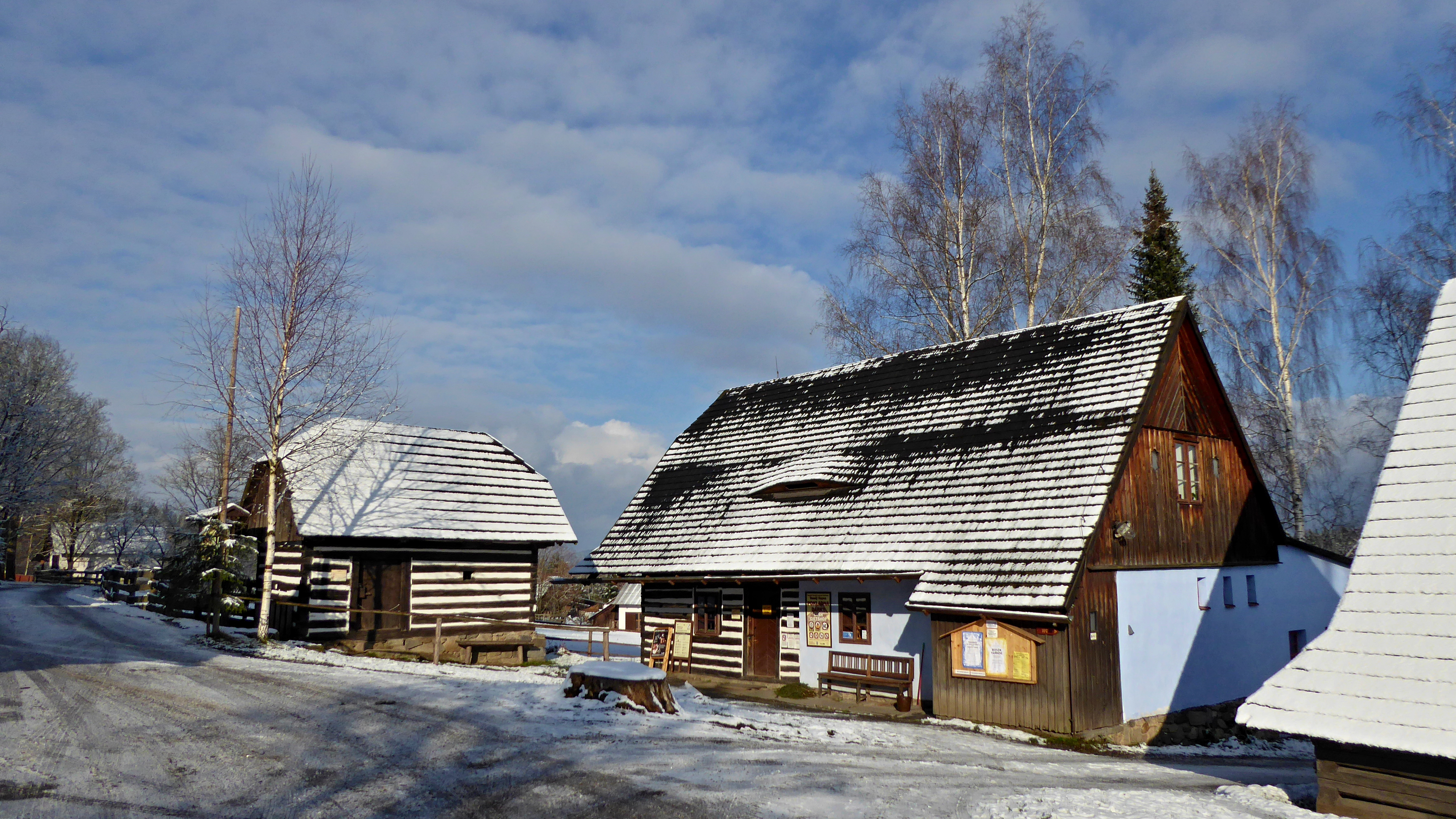 Buildings of folk architecture from the Horácko ethnographic area. Farm houses are they are transferred from the neighborhood near town of Hlinsko in the landscape of the Iron Mountains. Entrance to the exposition Veselý Kopec in a Open-air Museum Vysočina (formerly Set of folk buildings Vysočina). In the object can be bought tickets and souvenirs. The winter is associated with the Christmas tradition and also tradition of Masopust. In the natural area is way with green marked of tourist route in a part: Dřevíkov – Veselý Kopec, year round just for tourist on foot on a public road. To exposition entrance only to tickets. The exposition is open in the season (from April to October) and during the events and exhibitions held. Photo-location: Czechia, Pardubice Region, village Vysočina, small hamlet and exposition Veselý Kopec (azimuth 355°). External links: Veselý Kopec, open-air museum – website see Tourist map - composition Veselý Kopec, aerial view see